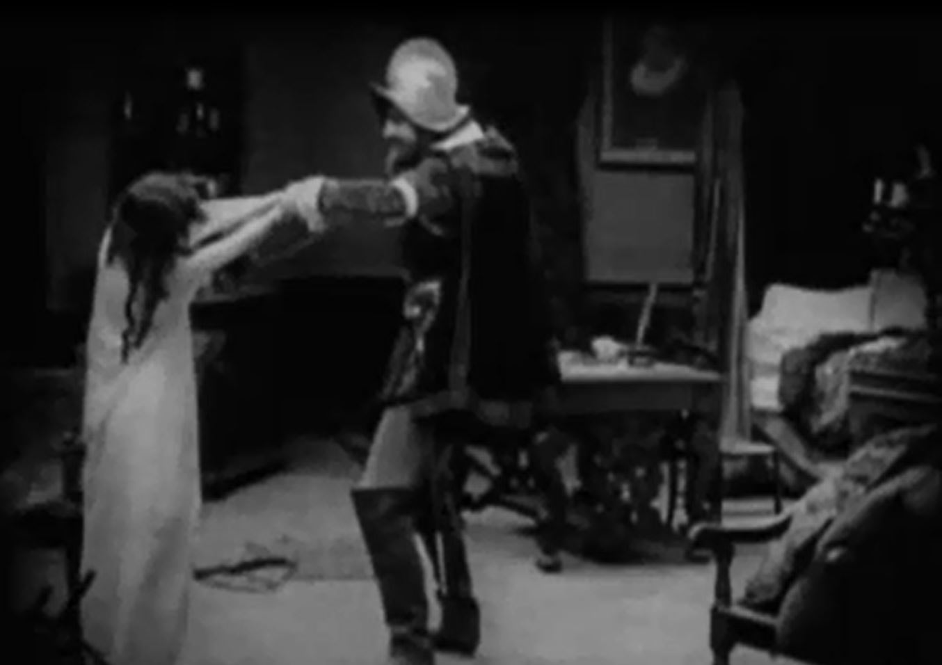 Low resolution screenshot from the public domain version of the film Intolerance (1916). A scene from the French Story where Brown Eyes (Margery Wilson) is killed by the Mercenary (A. D. Sears) during the St. Bartholomew's Day Massacre.